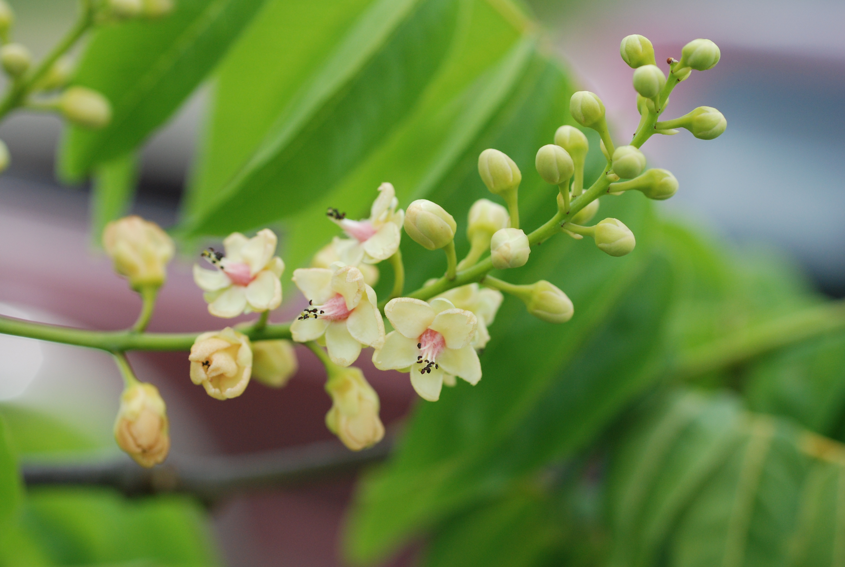 no common name Status: Endangered, Listed on February 5, 1988 Photo by Carlos Pacheco Location Cabo Rojo National Wildlife Refuge Photo date: 11-13-2007More information at